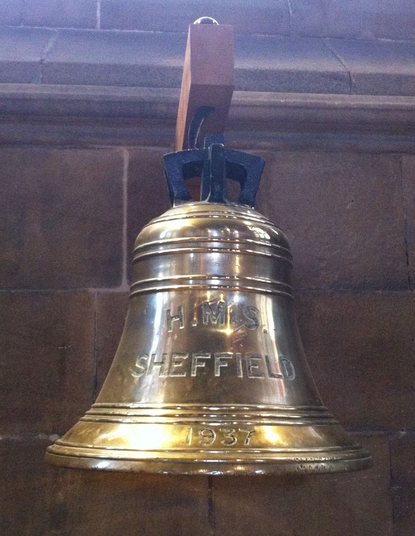 Bell of HMS Sheffield in the transept of Sheffield Cathedral